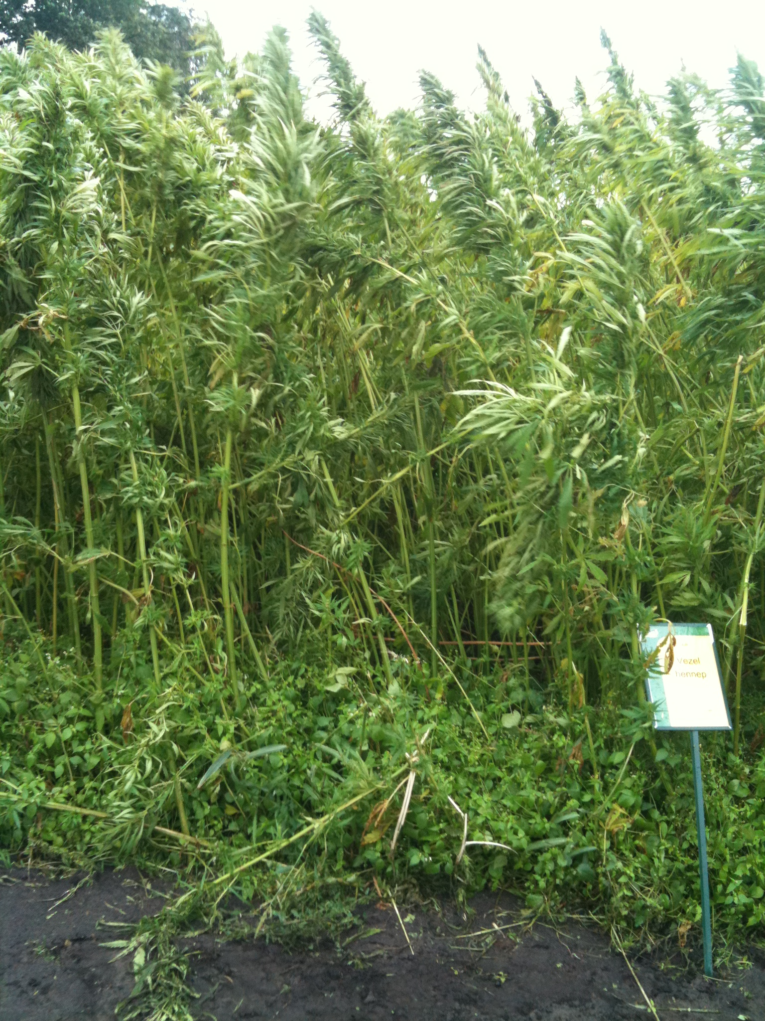 Cannabis plants for use as animal food